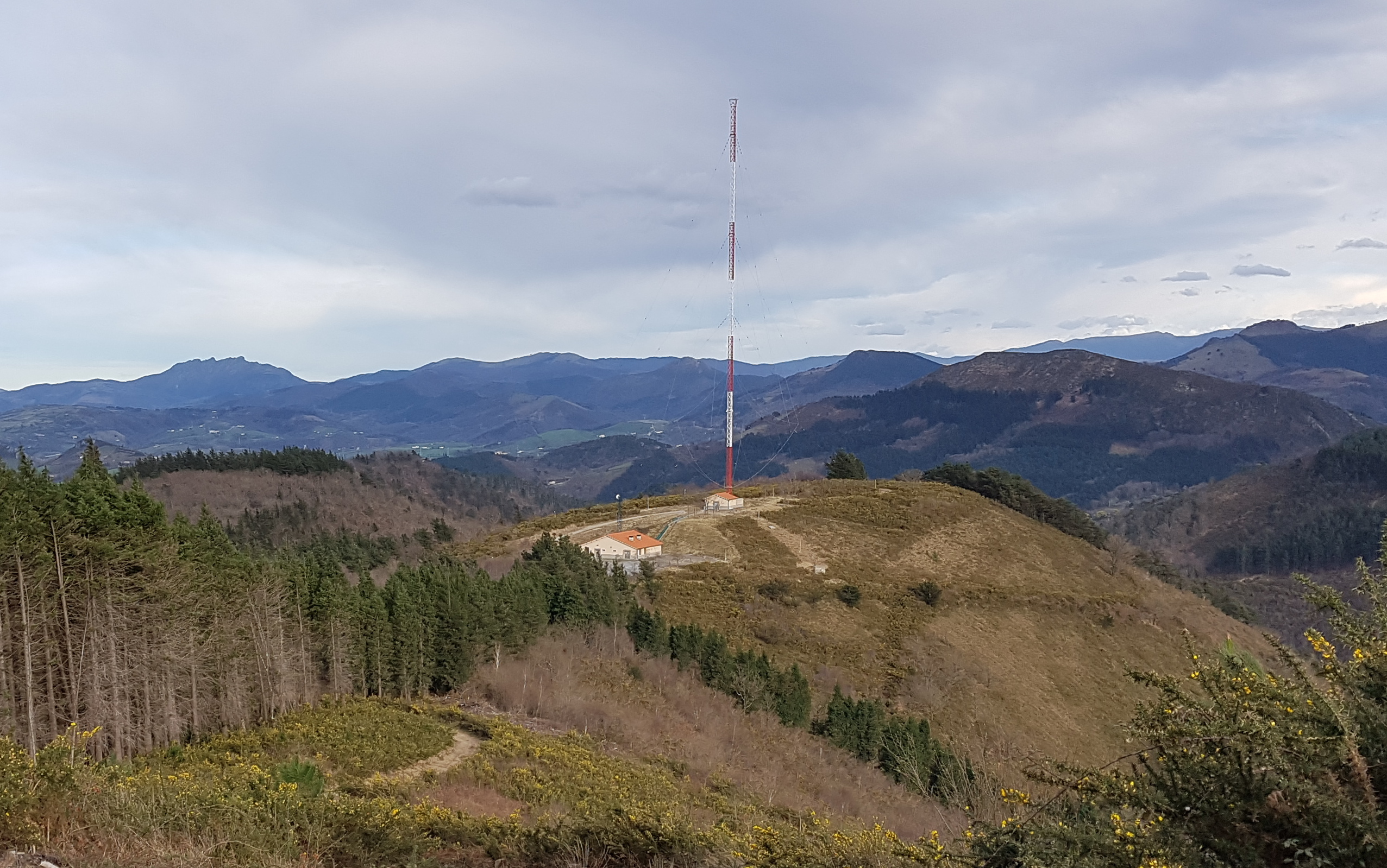 Antenna of Radio Nacional de España in Biribillondo (Andatza mountain)